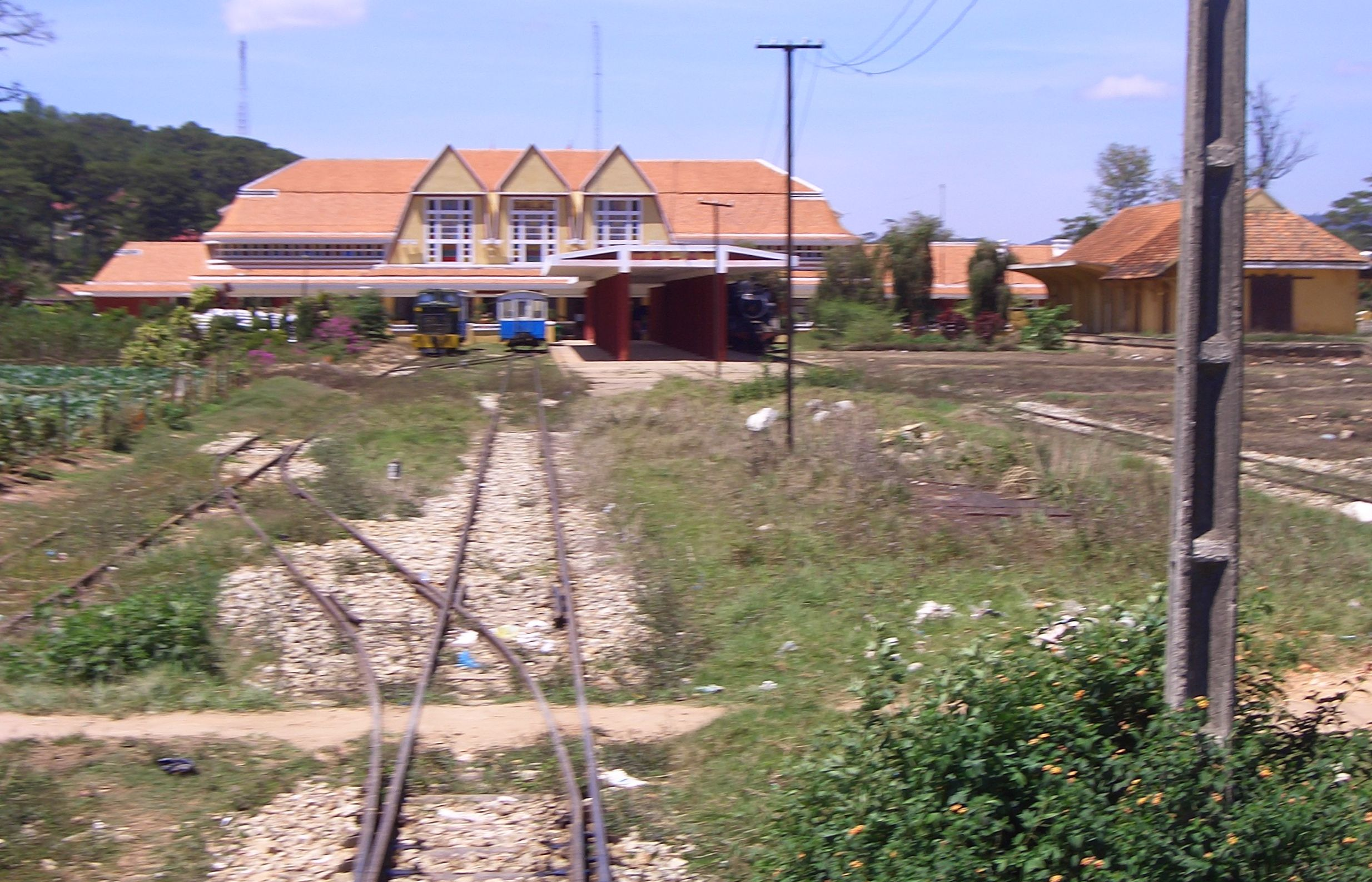 Train station of Da Lat, Vietnam